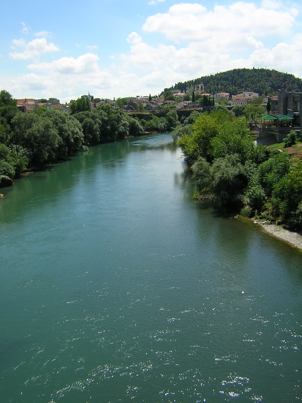 River Morača flows trough Podgorica